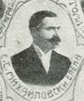 Portrait of SMAC member Stoyan Mihaylovski from Elena